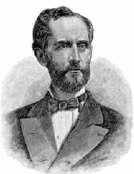 Manning Force, a politician and soldier from Ohio. Taken from Osborn H. I. Oldroyd, A Soldier's Story of the Siege of Vicksburg, 1885.